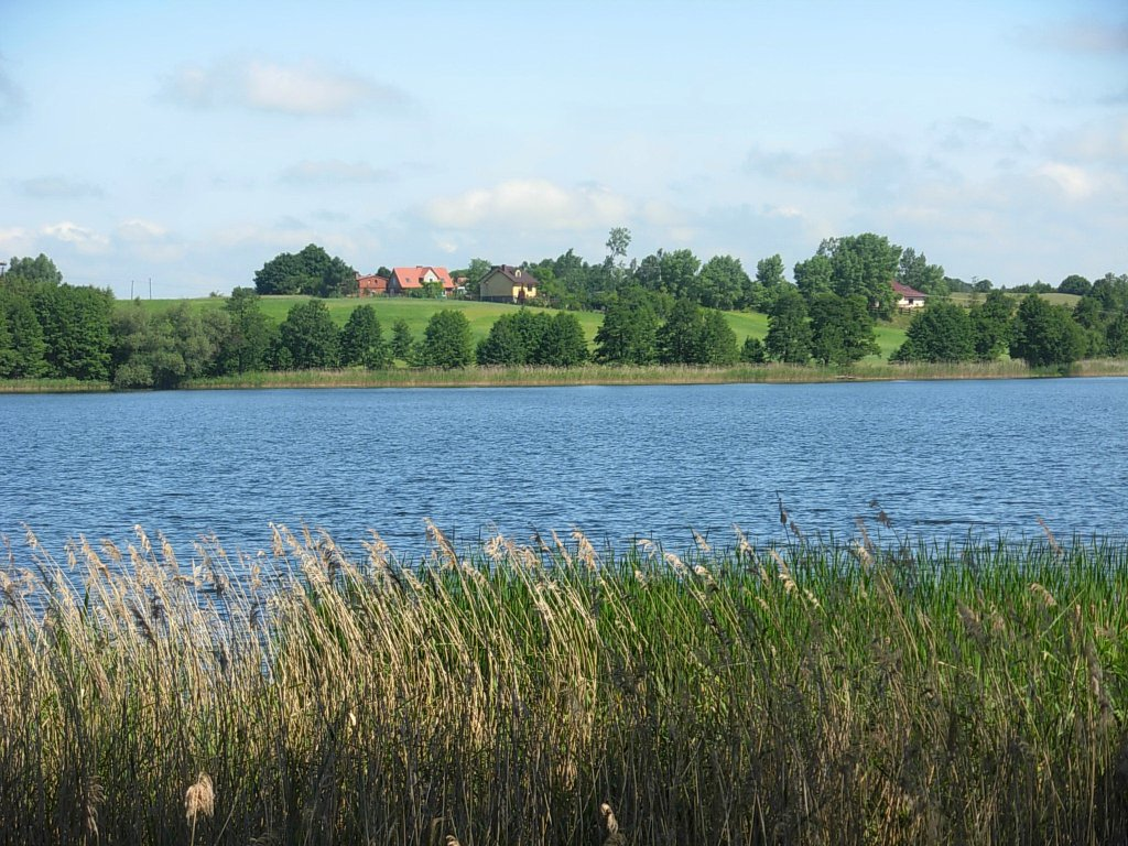 Wierzchucińskie Duże Lake